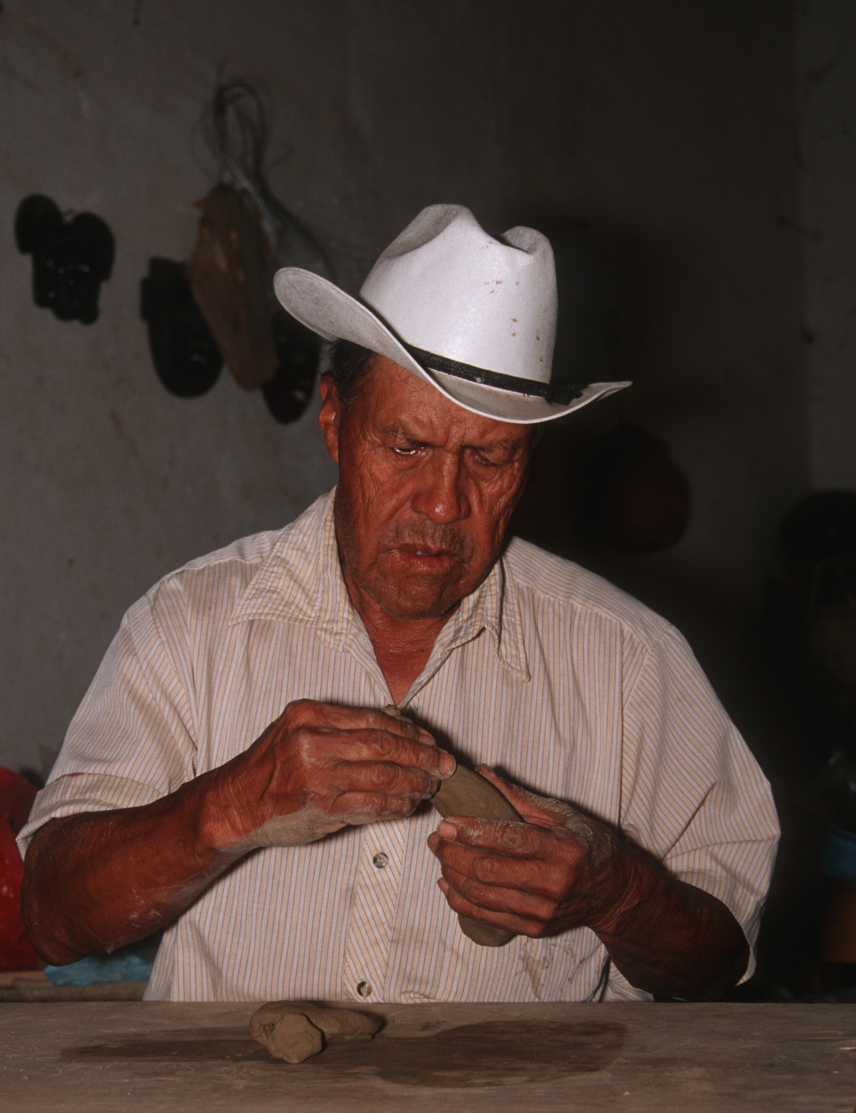 Antonio Eleazar Pedro Carreñao of the Carlomagno Pedro Martinez family in San Bartolo Coyotepec, Oaxaca Mexico